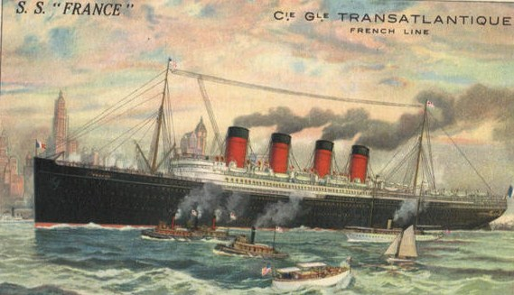 Colour Drawing of the SS France